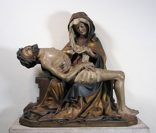 Pietà, Wood, paint, and gilt